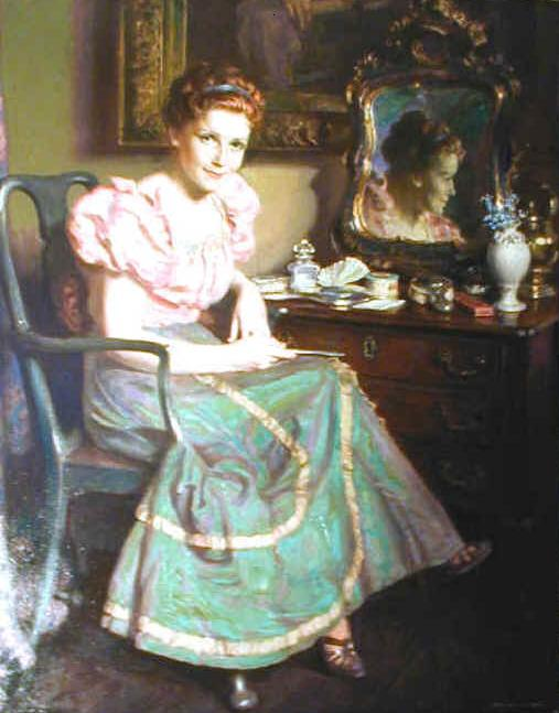 Lady Diana Cooper, Viscountess Norwich